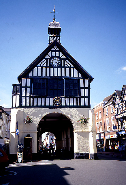 Bridgnorth: Marketplace. This old building was the old market and is situated in the south eastern section of the grid square. The picture was taken from the south side of the building.